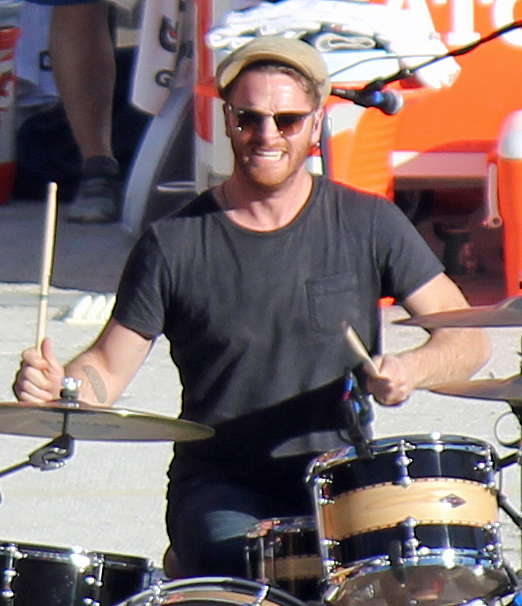 Ben Wysocki, a rock musician and member of the musical group The Fray.